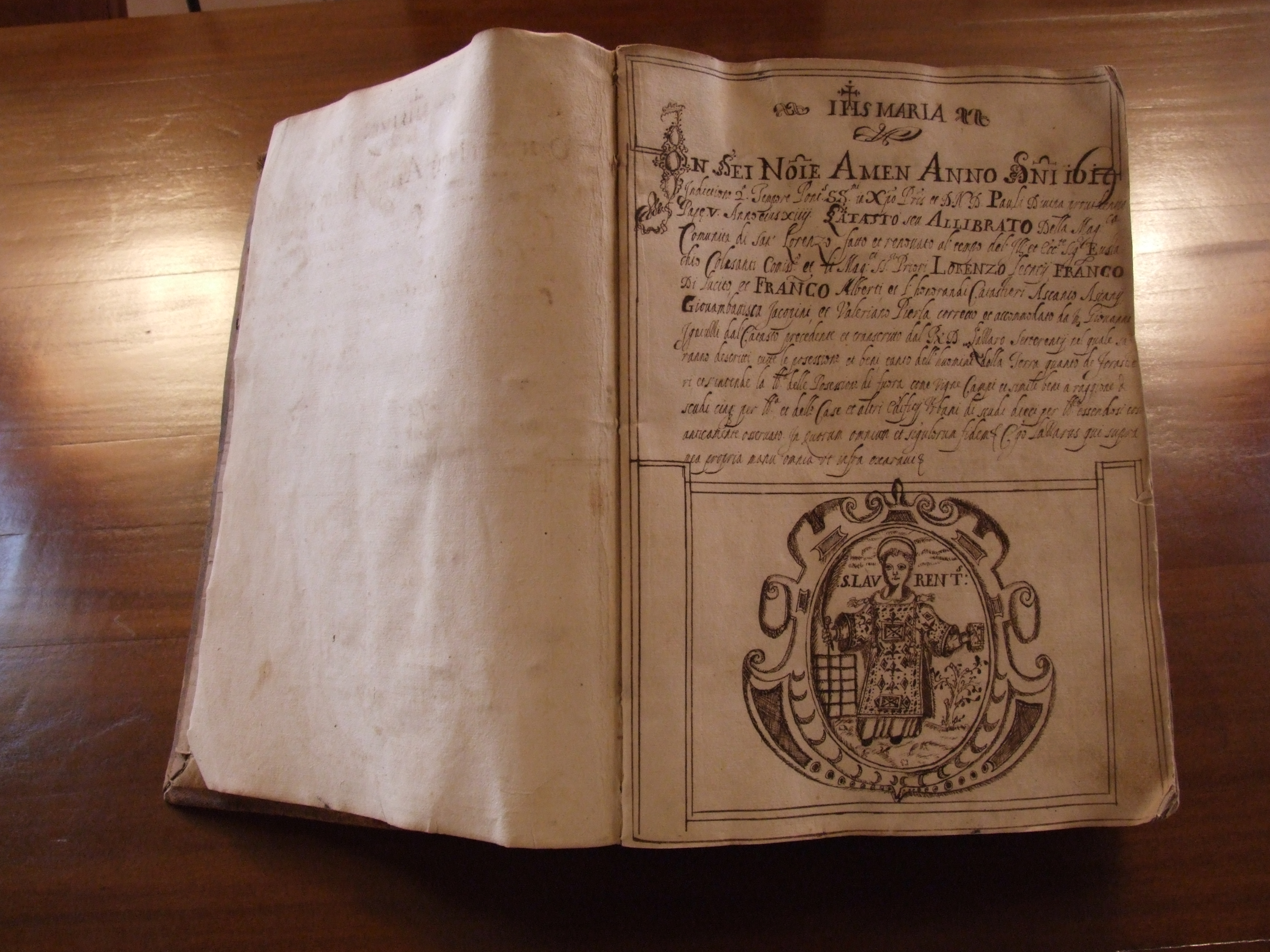 San Lorenzo Nuovo, Italy; Registration ("allibrazione") of rural cadastre, 1619.